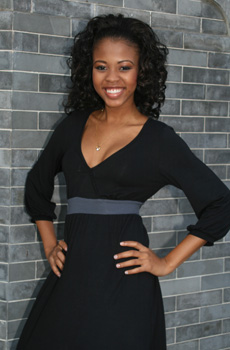 Miss Guyana 2007 - Candace Charles in Miss World 2007, Sanya, China